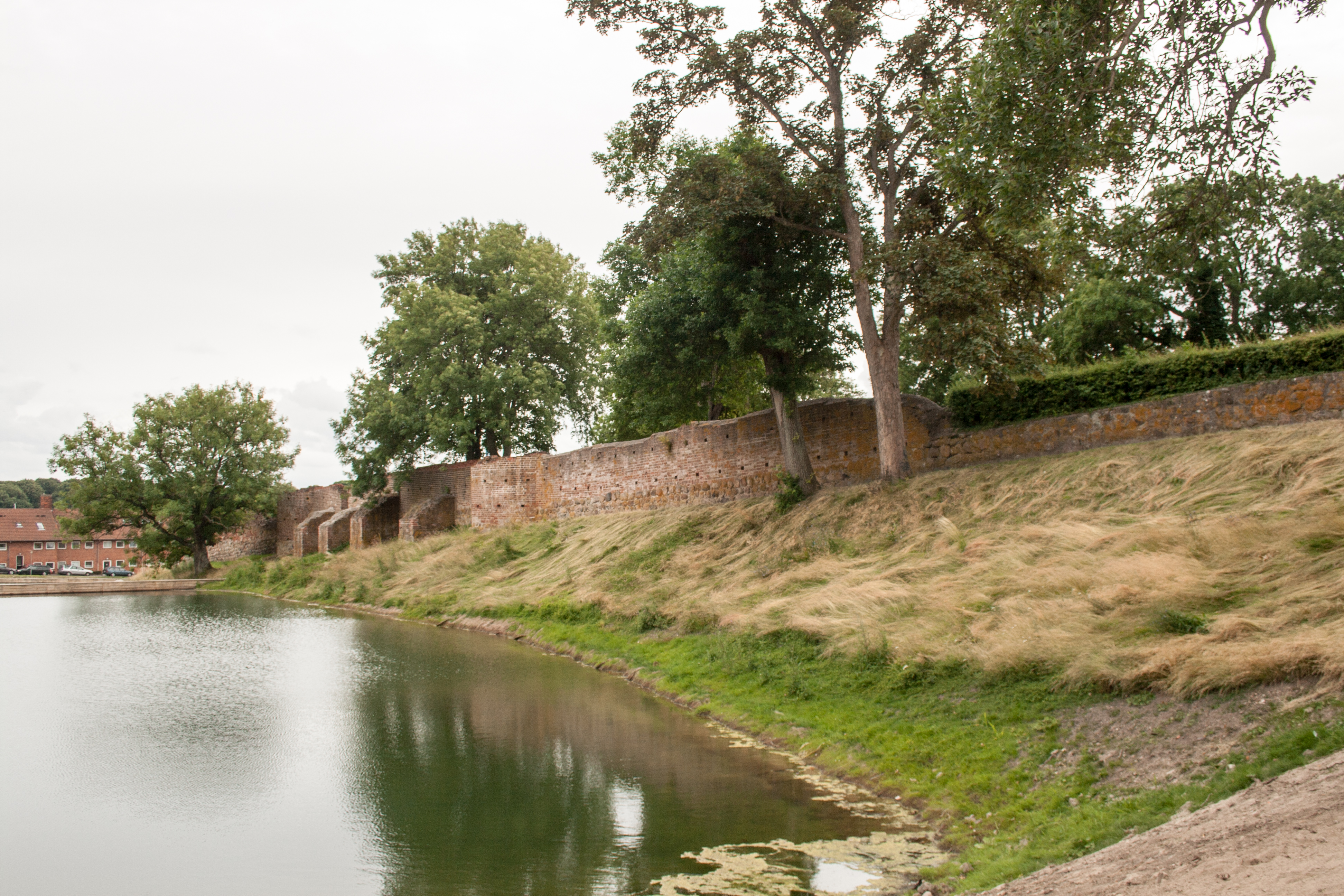 Vordingborg, remains of the city wall